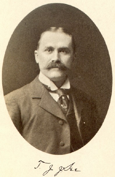 Photograph of the American astronomer, Thomas Jefferson Jackson See (T. J. J. See)